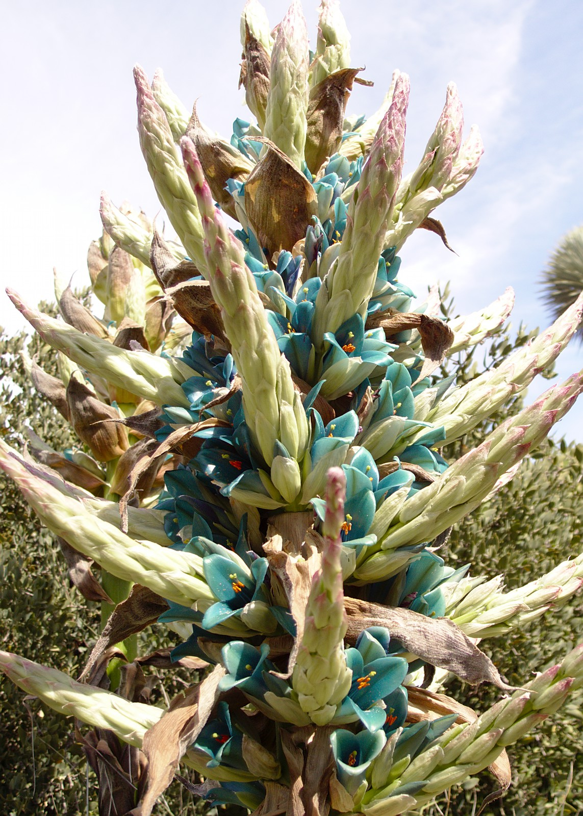 Puya alpestris flowers at the Huntington Desert Garden in San Marino, California.